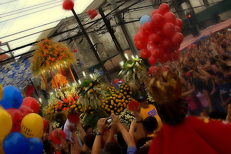 Sr. Sto Nino Annual Fiesta Sinulog Festival 2009 Cebu City, Philippines For more pictures click here Sinulog 2009